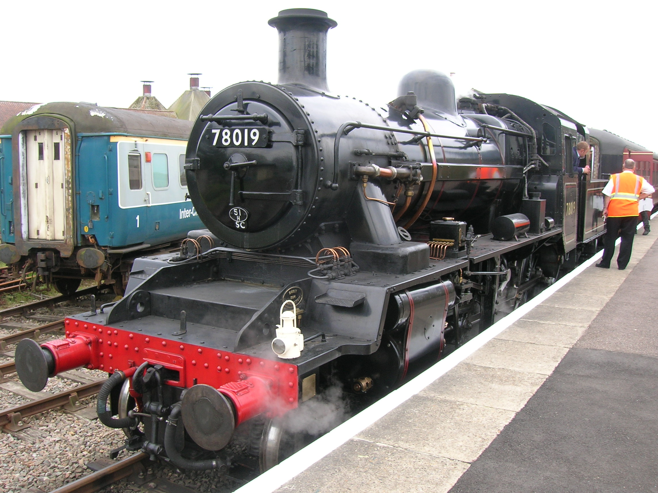 Standard 2 78019 at Dereham, Mid-Norfolk Railway during June 2012.